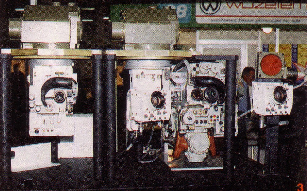 Drawa